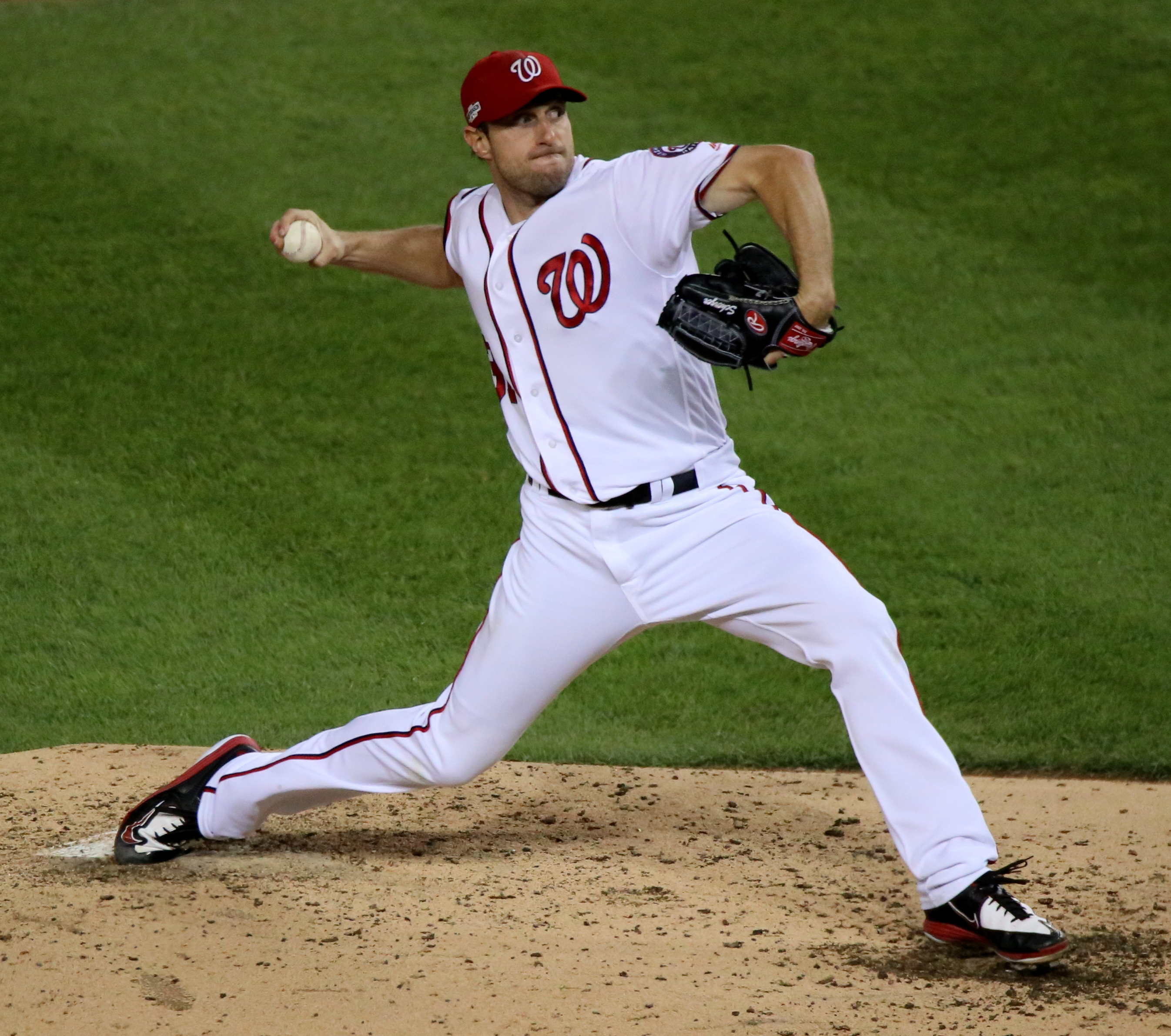 Nationals starter Max Scherzer delivers a pitch during the fifth inning of NLDS Game 5.